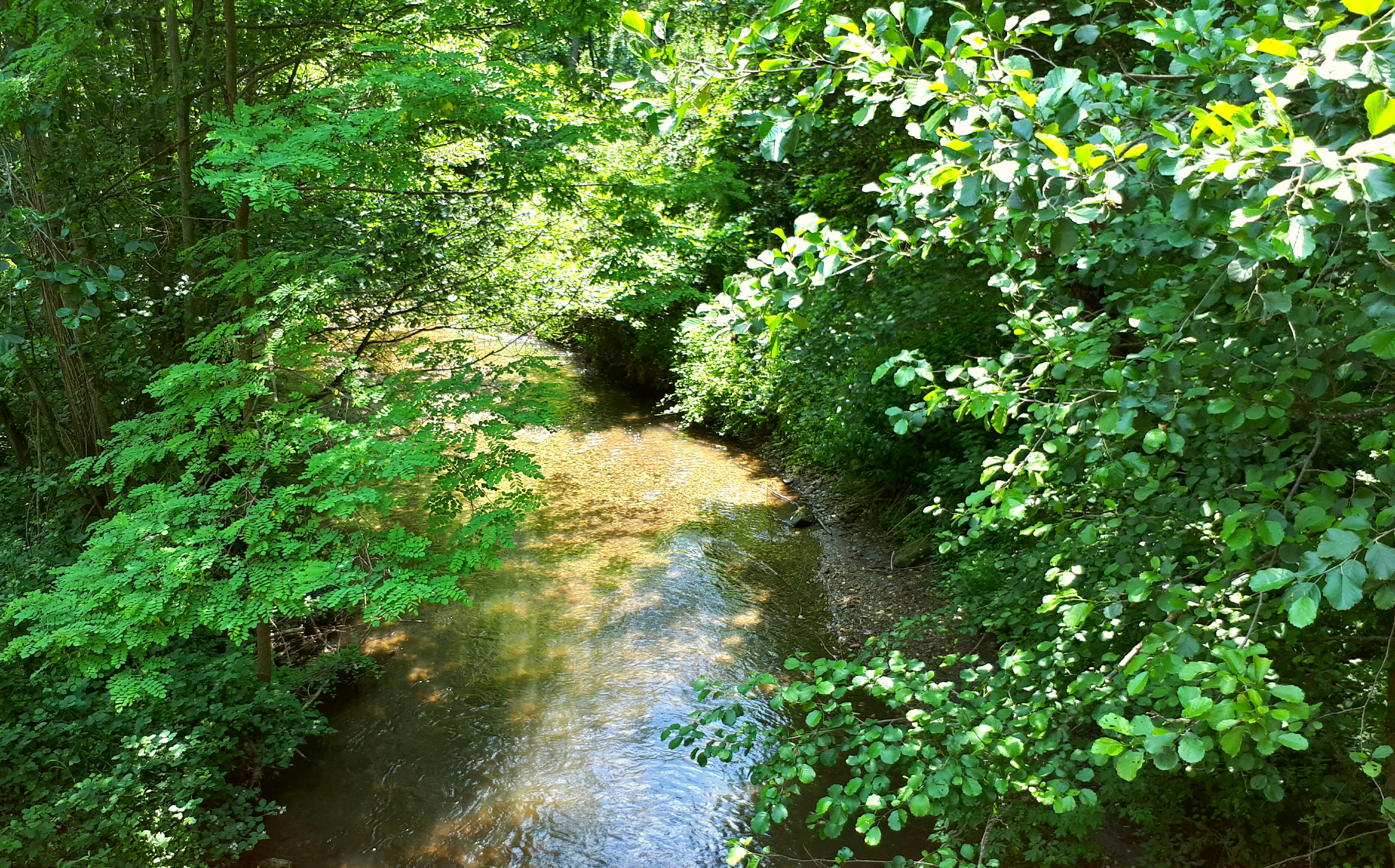 River Mala Reka in front of mount in the Treska